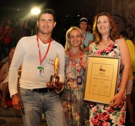 Odessa Internetional Film Festival 2012.